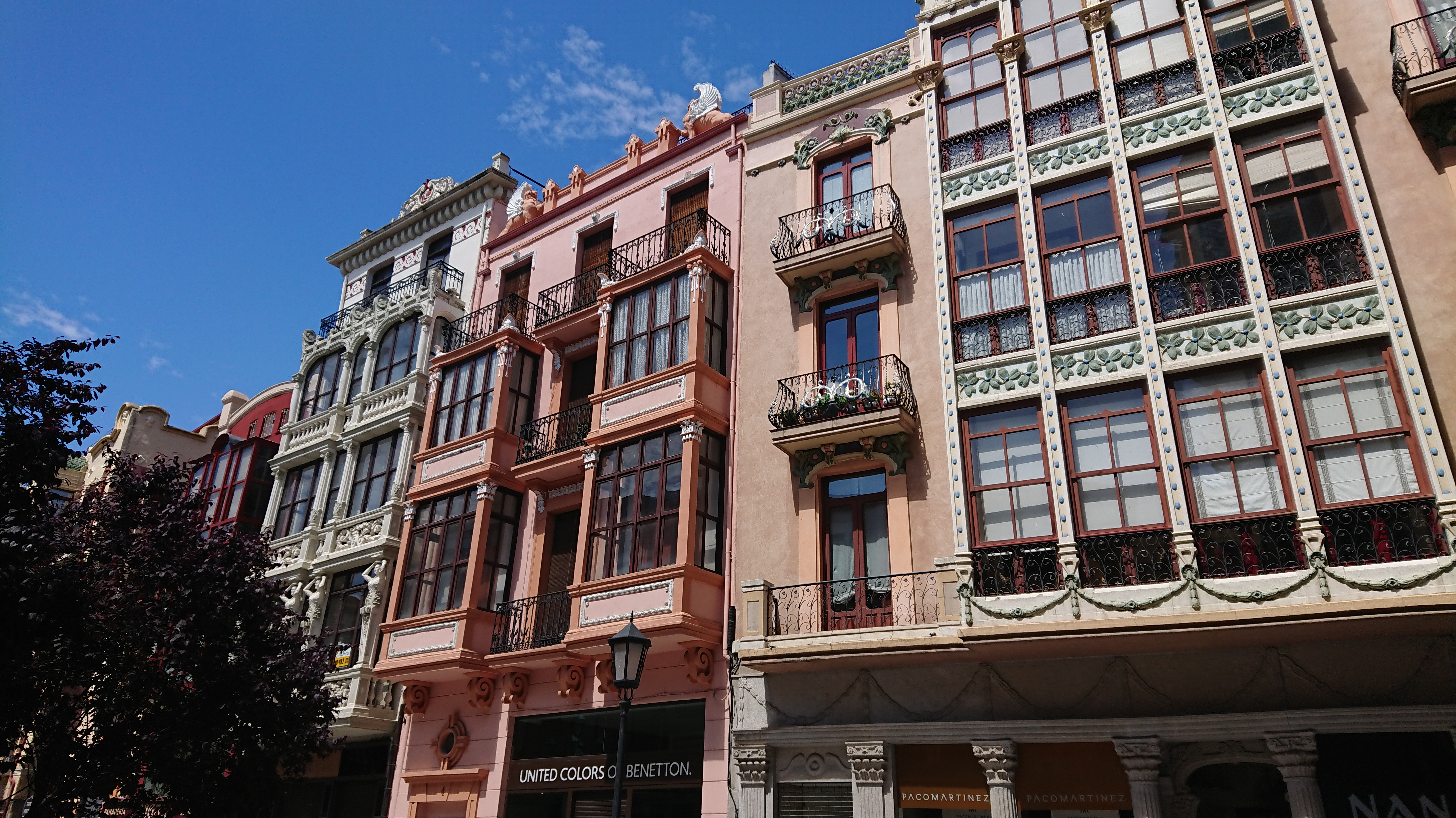 Modernista buildings, Plaza de Sagasta, Zamora (Spain)